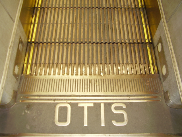 Lower landing platform and wooden treads on a historic Otis L-Type escalator at Wynyard railway station, Sydney, Australia, installed in 1931, removed in 2017.